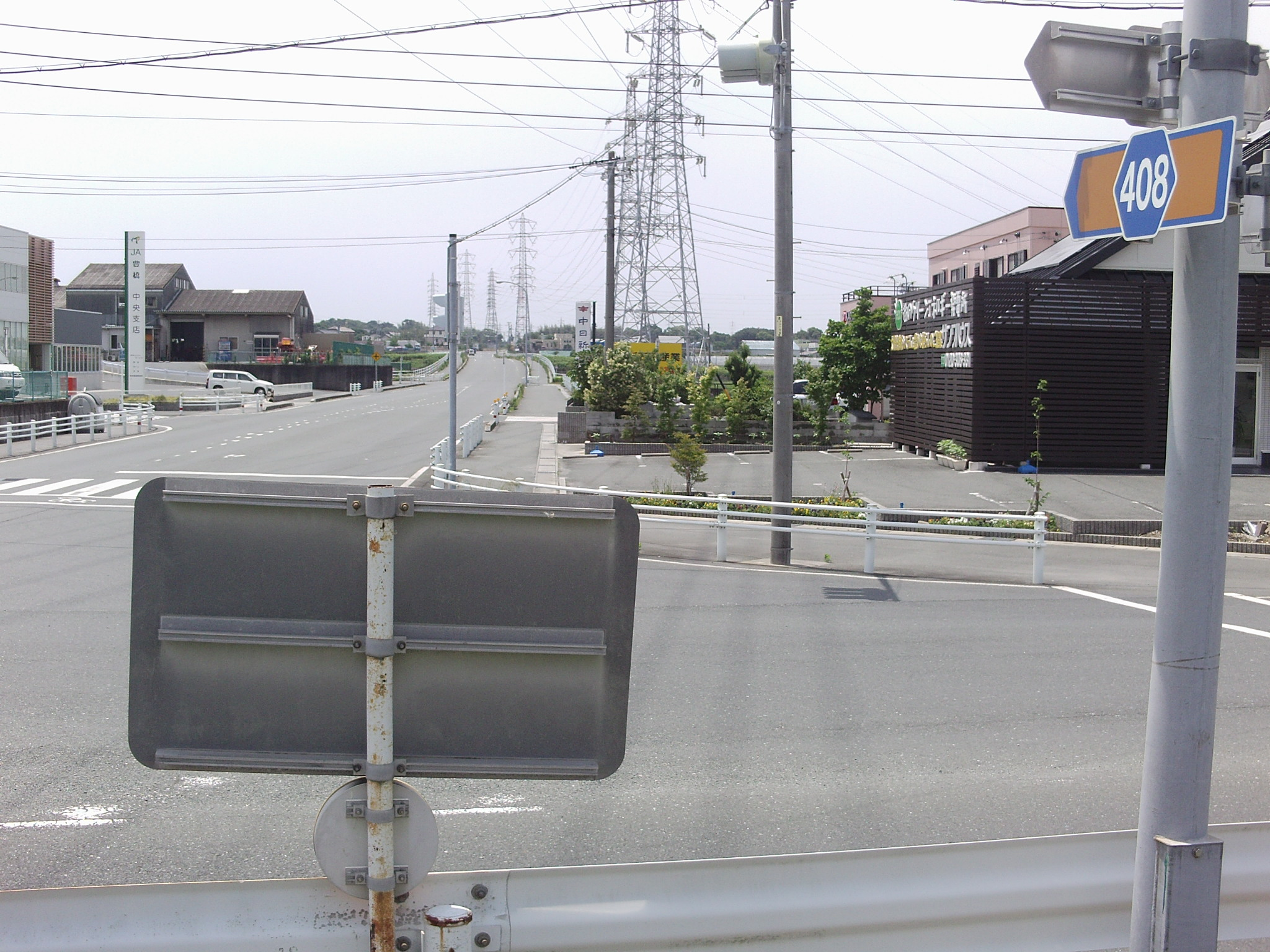 Aichi prefectural road No.408 in Noyoricho, Toyohashi, Aichi.